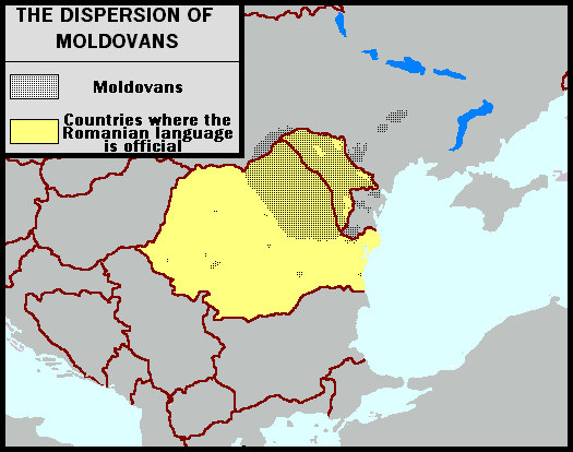 The dispersion of Moldovans in Romania, Moldova and Ukraine. Sources: For the Moldovans in Romania: Dicţionarul explicativ al limbii române, Academia Română, Institutul de Lingvistică "Iorgu Iordan", Editura Univers Enciclopedic, 1998 [1] Violette Rey - Atlas de la Roumanie [2] Vladimir Socor - an article from The Jamestown foundation [3] For the Moldovans in the Moldovan Republic: Census 2004 For the Moldovans in Ukraine: Census 2001 Other sources: Brockhaus Enzyklopädie